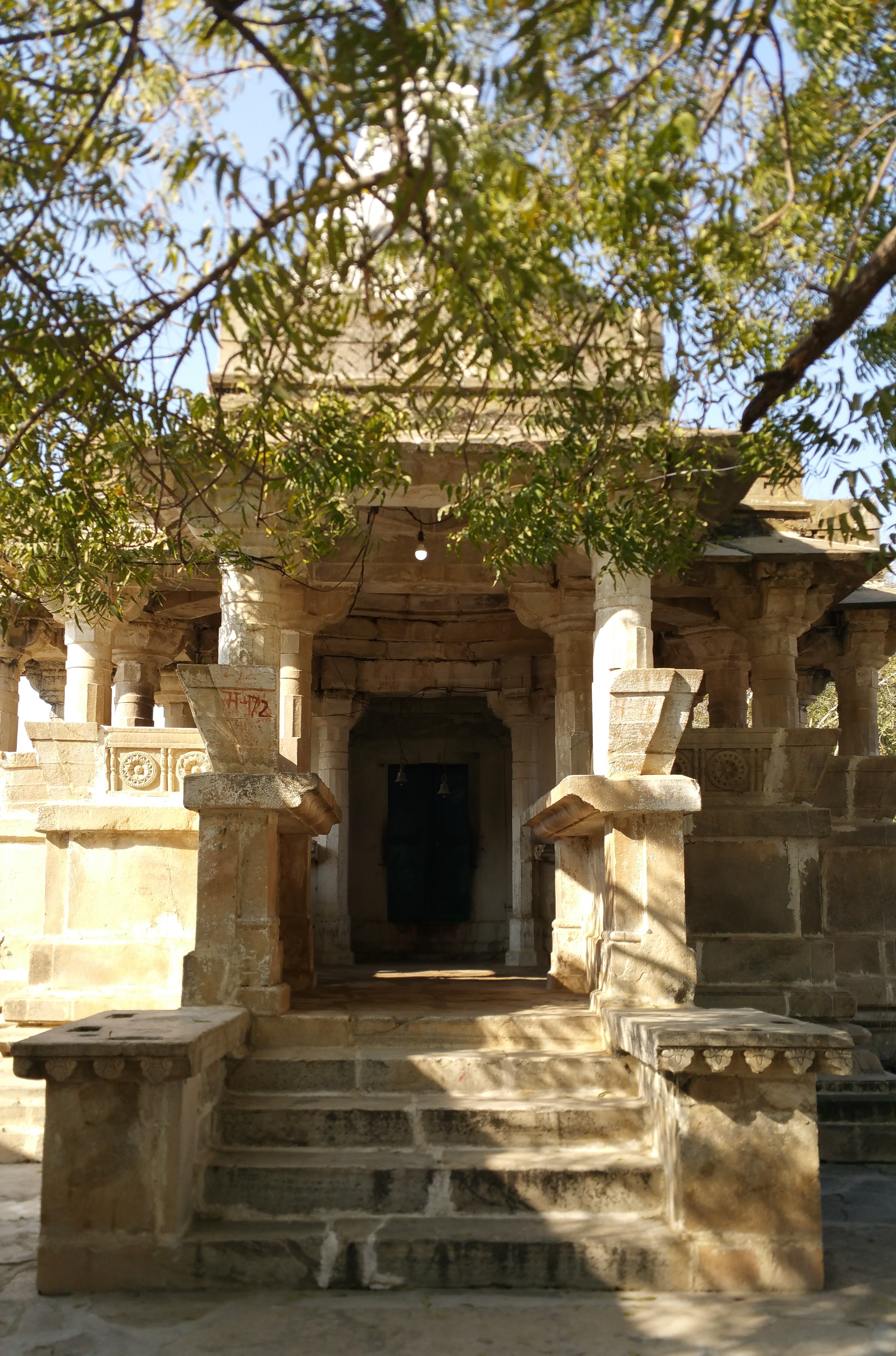 Ravla Khempur hotel, Rajasthan, India.